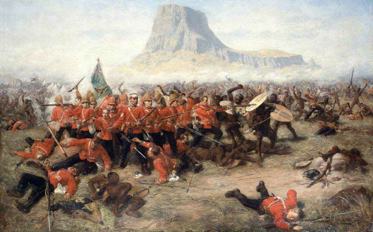 Battle of Isandhlwana (1879) Natal, South Africa